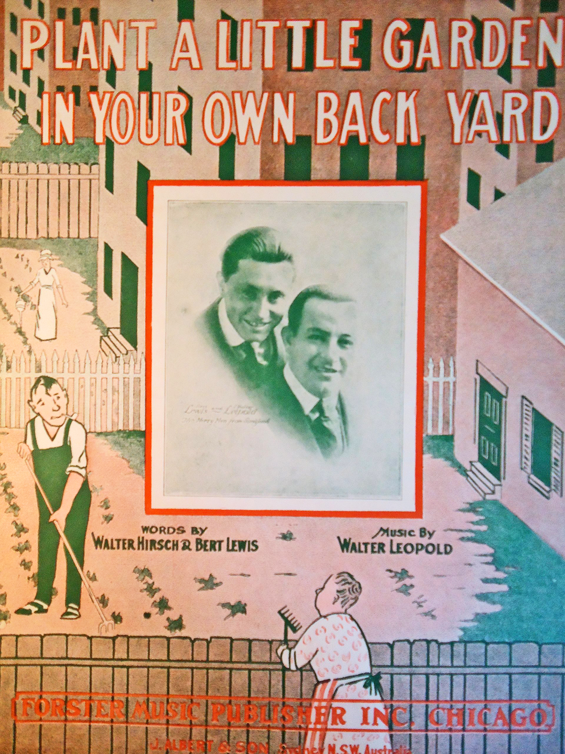 Plant a Little Garden In Your Own Back Yard